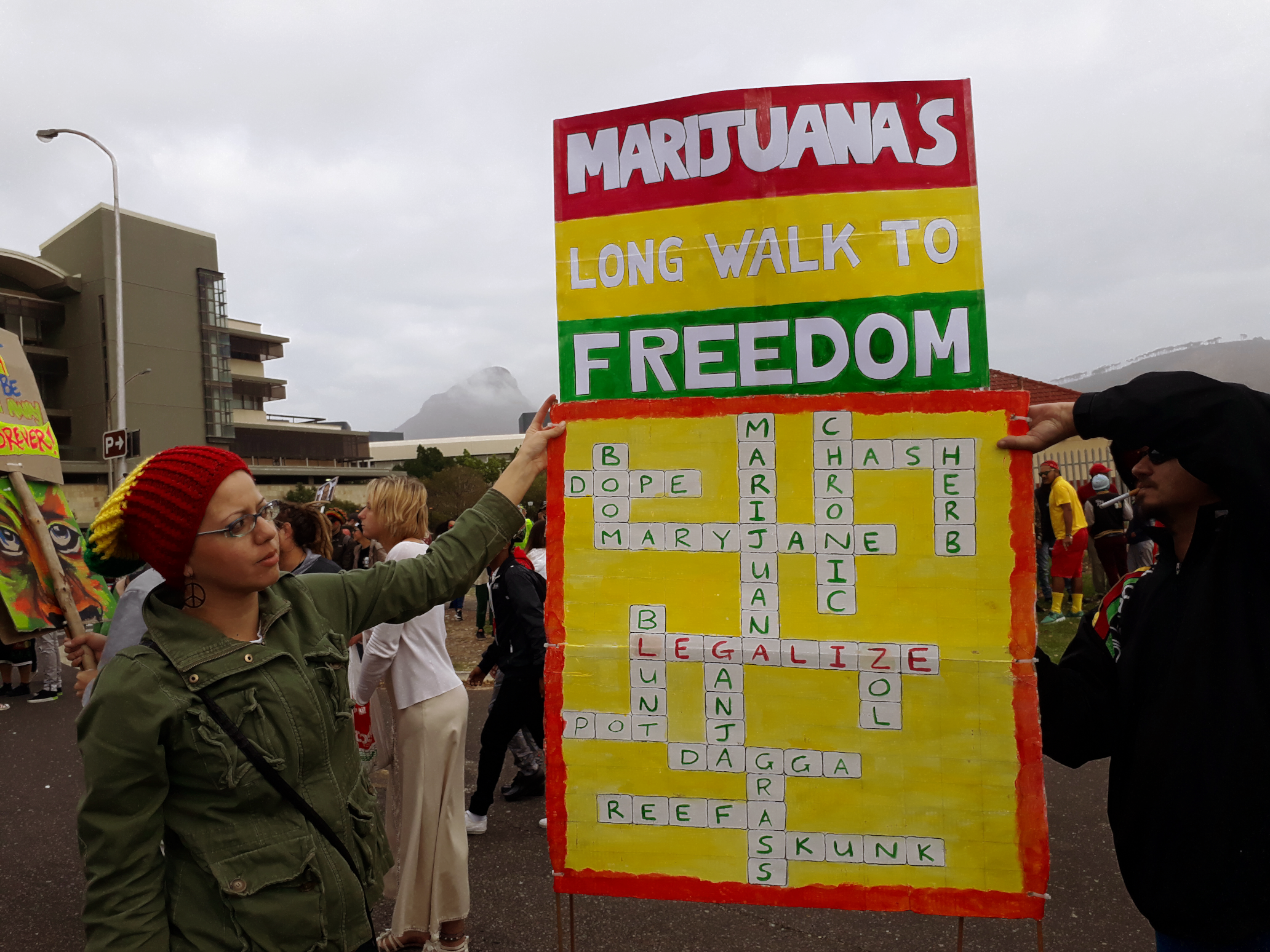 Against the backdrop of Cape Town's Lion's Head and Signal Hill landmarks, pro-legalisation activists at the 2017 Cannabis Walk hold up a placard.